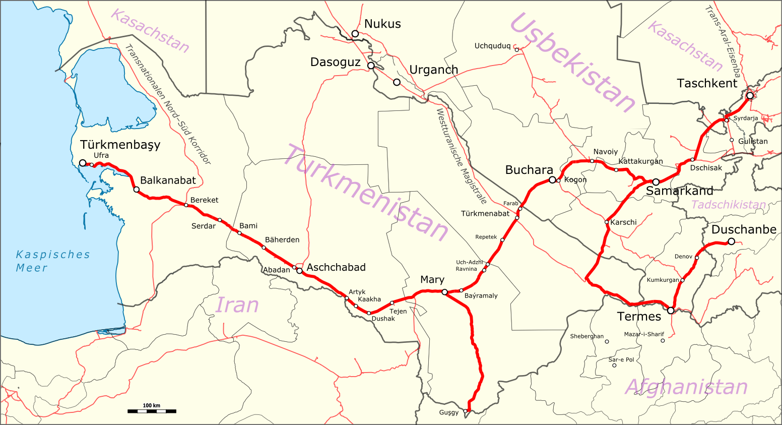 Map of the Trans-Caspian railway in the state of 1930 with the boundaries and railway lines of 2015